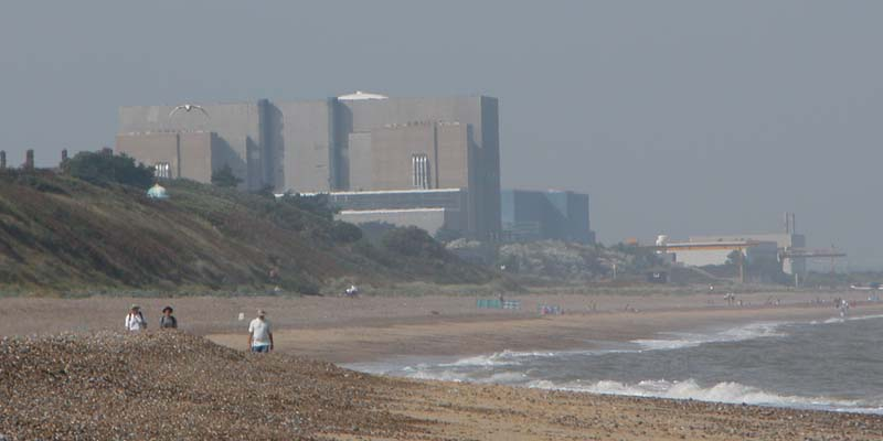 A view to the Sizewell A & B nuclear power stations along the beach near Thorpness, looking north. The white reactor dome of Sizewell B is just visible above the concrete block which houses the reactors of Sizewell A, with the smaller turbine building in front.